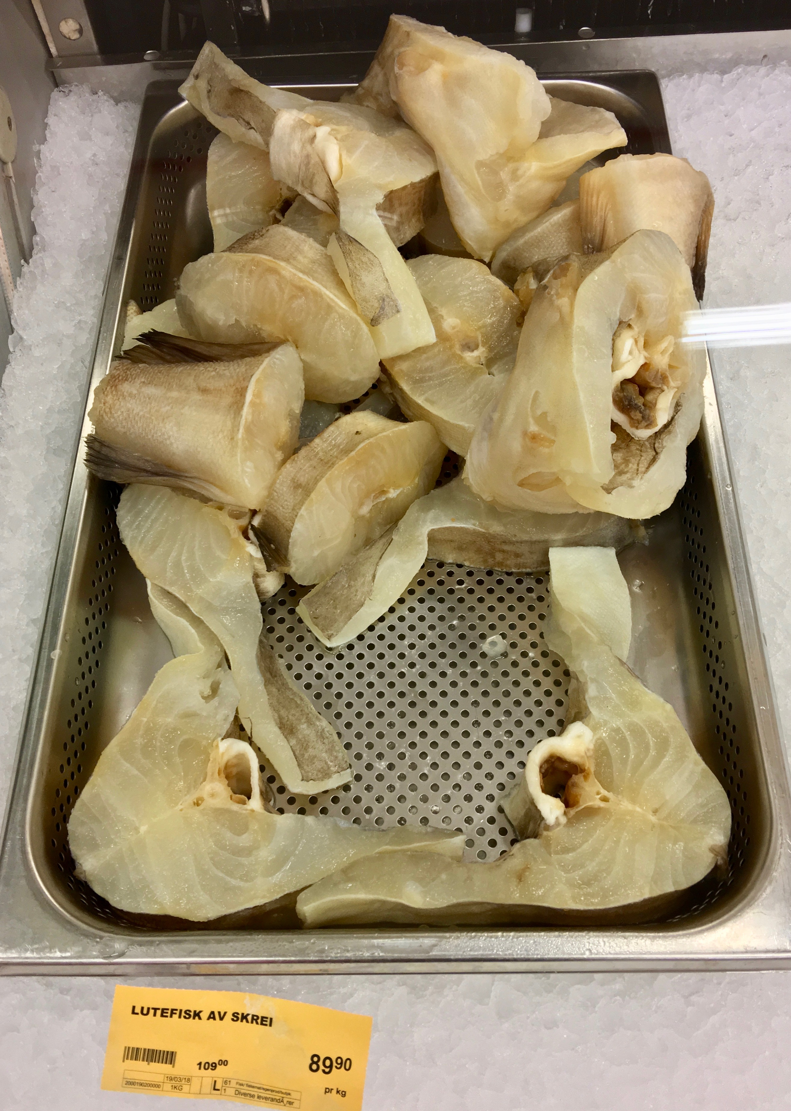 Extra Coop Supermarket, Amfi Shopping Mall in Osøyro, Hordaland, Norway. 2018-03-22. Traditional Norwegian cod food dish for sale ("lutefisk av skrei")